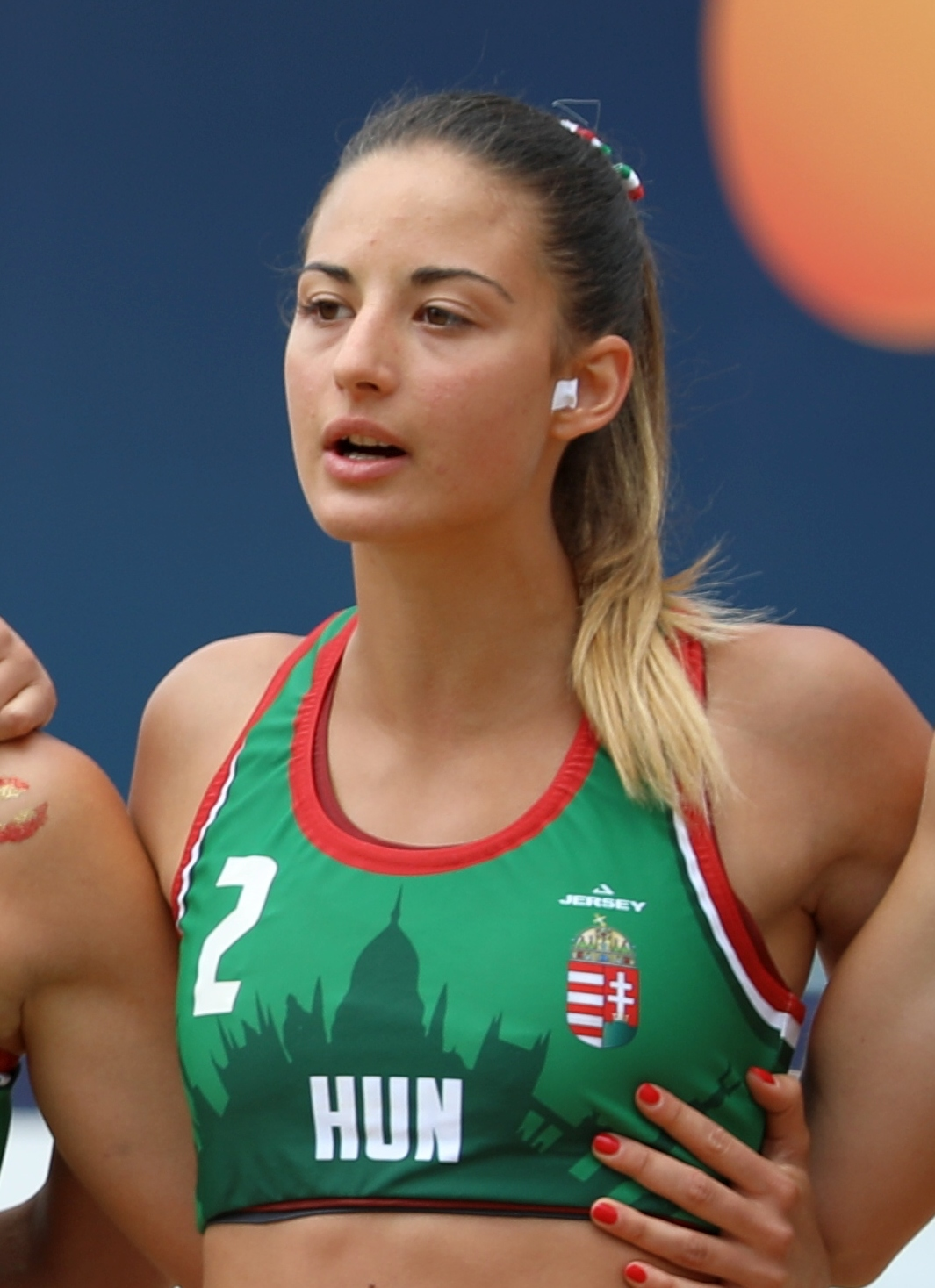 Beach handball Euro; Day 6: 7 July 2019 – Women's Final – Denmark-Hungary 2:0 (18:12, 23:22)